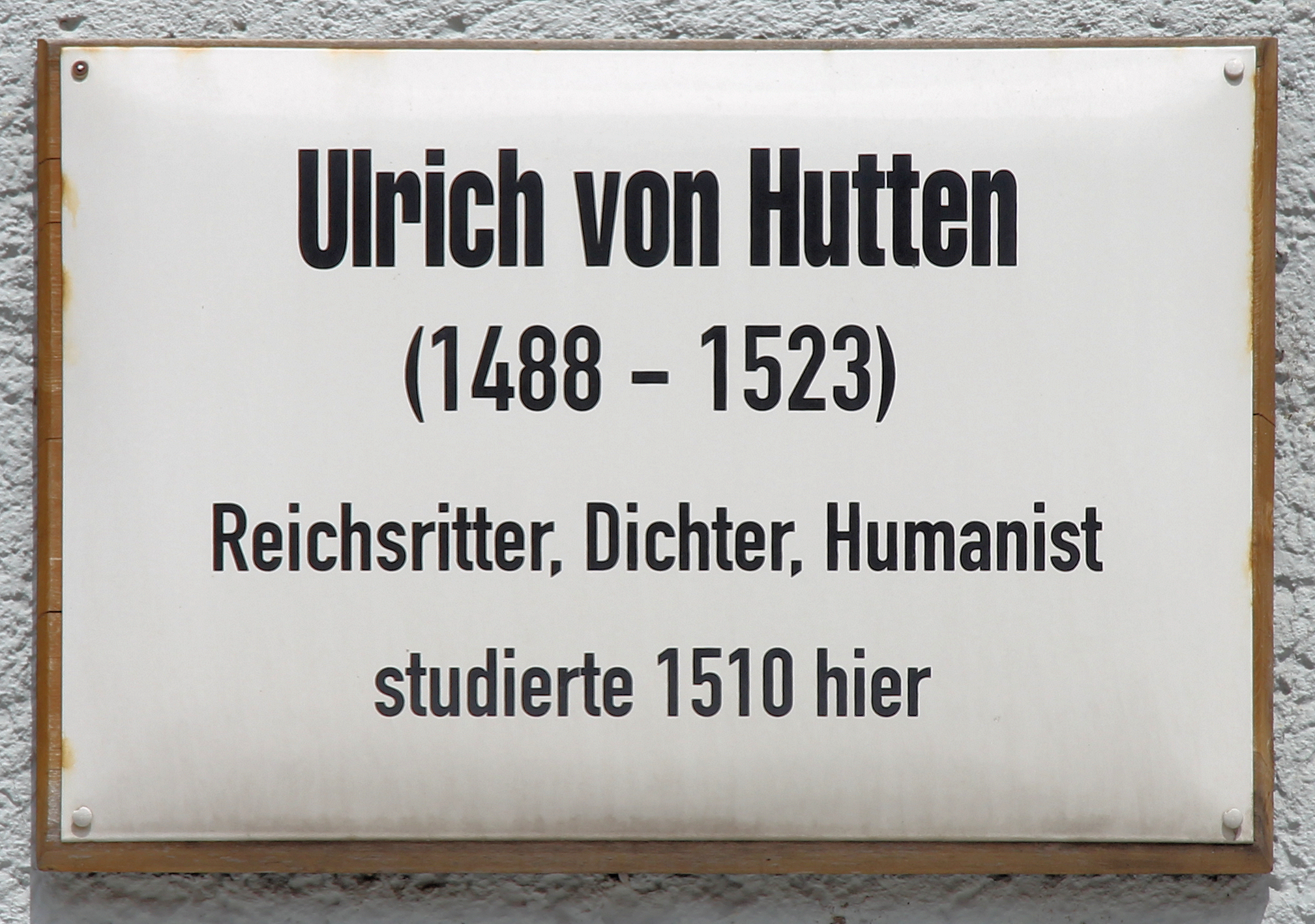 Memorial plaque, Ulrich von Hutten, Schloßstraße 14-15, Lutherstadt Wittenberg, Germany Koordinate:51°51′59″N 12°38′23″E / 51.86639°N 12.63972°E